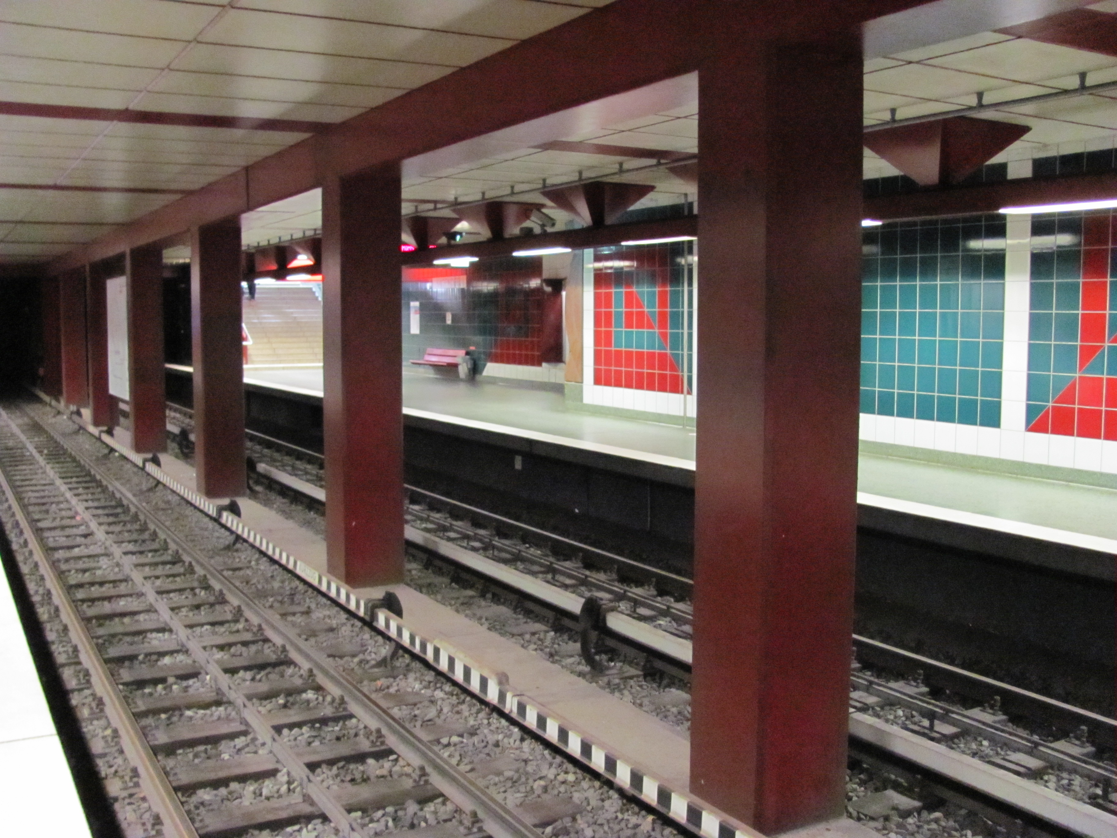 U-Bahn station Hagendeel in Hamburg, Germany